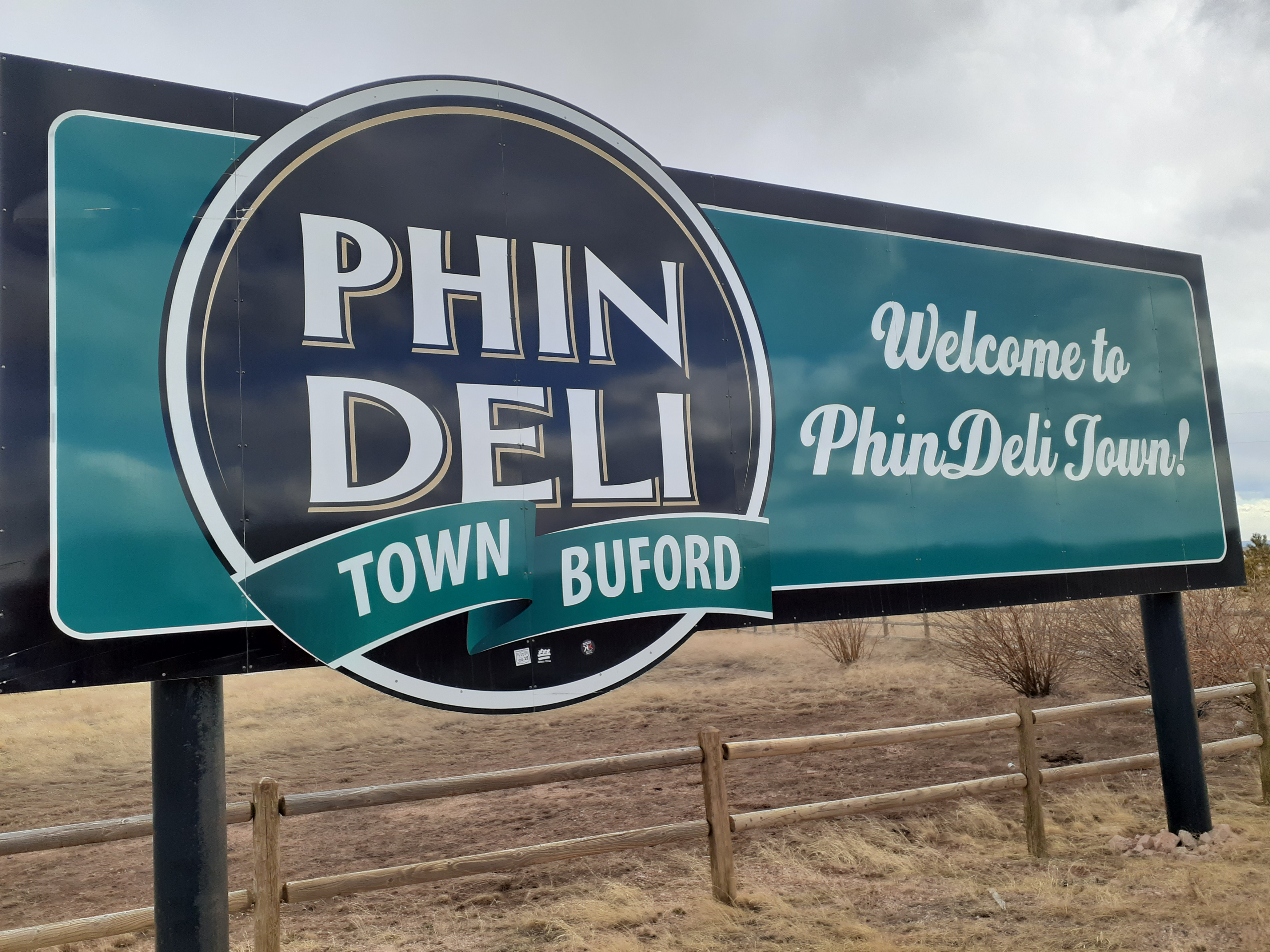 Between 2011 and 2017, the town h as d an additional name as means of advertising, but then the town was abandoned. Thankfully, the sign still exists to photograph